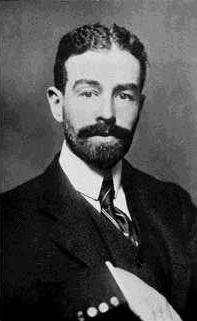 Cornelius Vanderbilt III